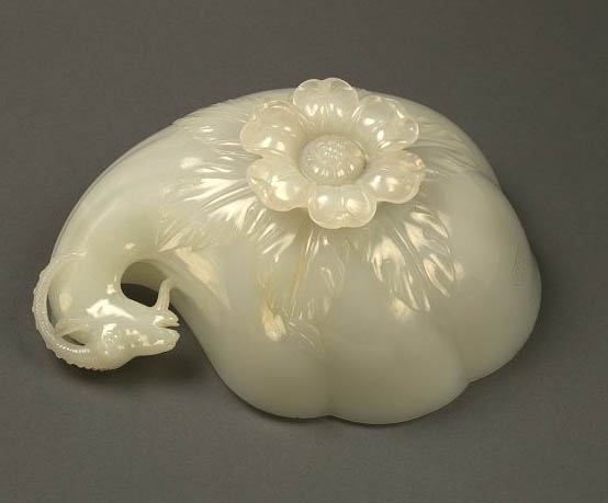 Wine Cup, made 1657, V&A Museum no. IS.12-1962 This unique wine cup of white nephrite jade was made for the Mughal emperor Shah Jahan (r. 1628-1658) and is inscribed with his title, Second Lord of the Conjunction, following the conventions of royal titulature in the Persian-speaking world, and specifically alluding to Timur, the Central Asian ruler from whom the Mughals were descended. It is also dated 1067 of the Islamic calendar, and regnal year 31, which convert to 1657. The cup was originally in the collection of Colonel Charles Seton Guthrie, who had a renowned collection of Mughal hardstones and died in 1875, but was acquired by the museum in 1962.